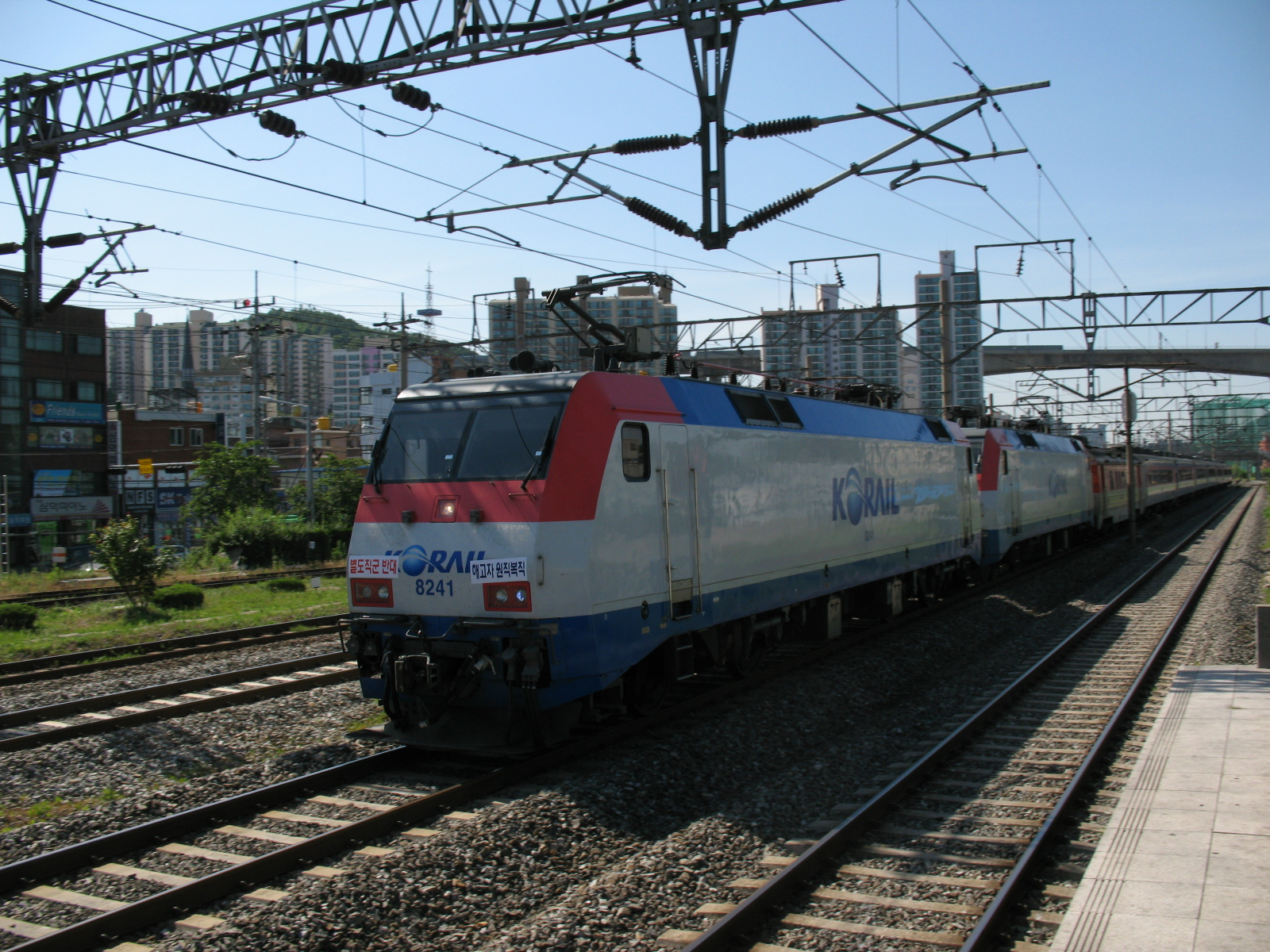 Korail Electric Locomotive 8200.